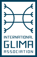 the Logo of International Glima Association